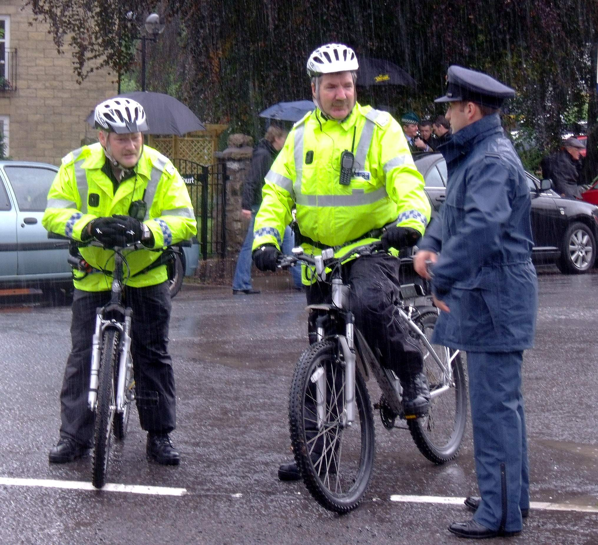 Two Pitlochry bike patrol officers with RAF officer (Parade marshall) in the bucketing rain, ready for the start of the Pipe Band parade. The Annual Pitlochry Highland Games brings our pipe band down from the Highlands, and Tayside's finest are out in force for the event which attracts a lot of visitors and traffic to the area. Although the weather was not too friendly, the local Polis were - as ever. Many thanks for your assistance and courtesy, Sgt and Constables.